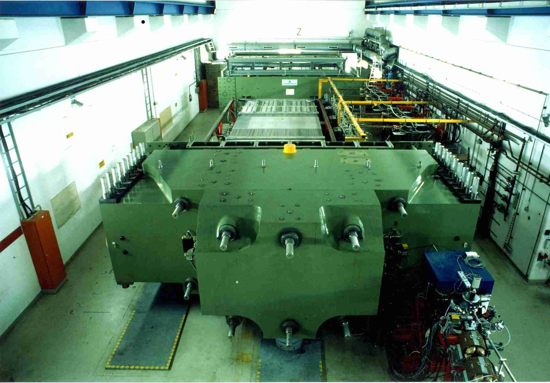 MAMI-RTM3